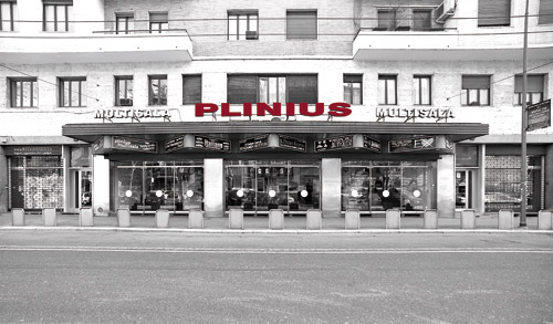 Plinius Theatre